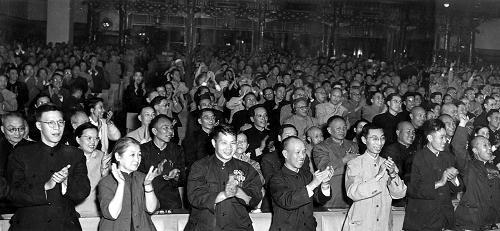 The National People's Congress members stood up and applauded after adopted the Constitution of the People's Republic of China in the 1st National People's Congress on September 20, 1954. 中文（中国大陆）: 1954年9月20日，第一届全国人民代表大会第一次会议通过了《中华人民共和国宪法》。图为报告投票表决结果时，全体代表起立热烈鼓掌。